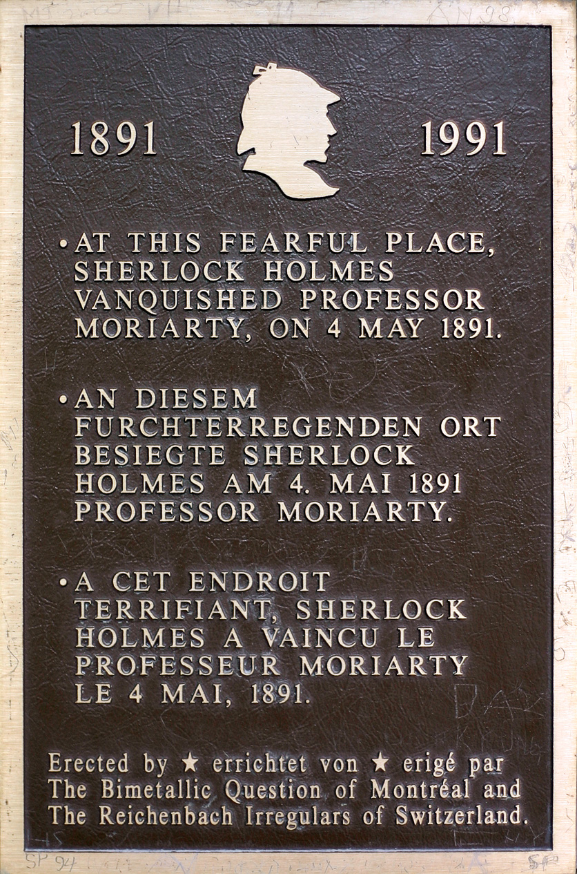 Plaque, located near Reichenbach falls where Sherlock Holmes vanquished professor Moriarty.